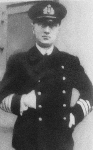 Kolchak summer 1917